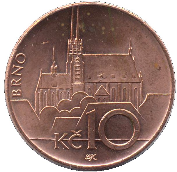 10 CZK coin of 1995 (reverse)